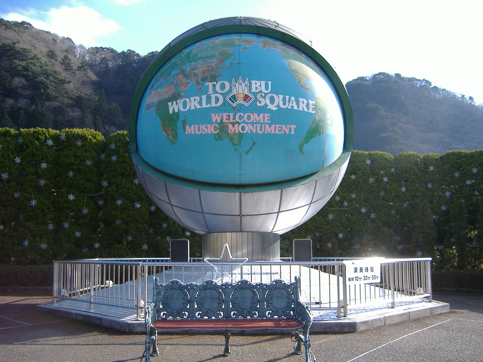 The entrance monument of Tobu World Square(Tochigi pref, Japan).